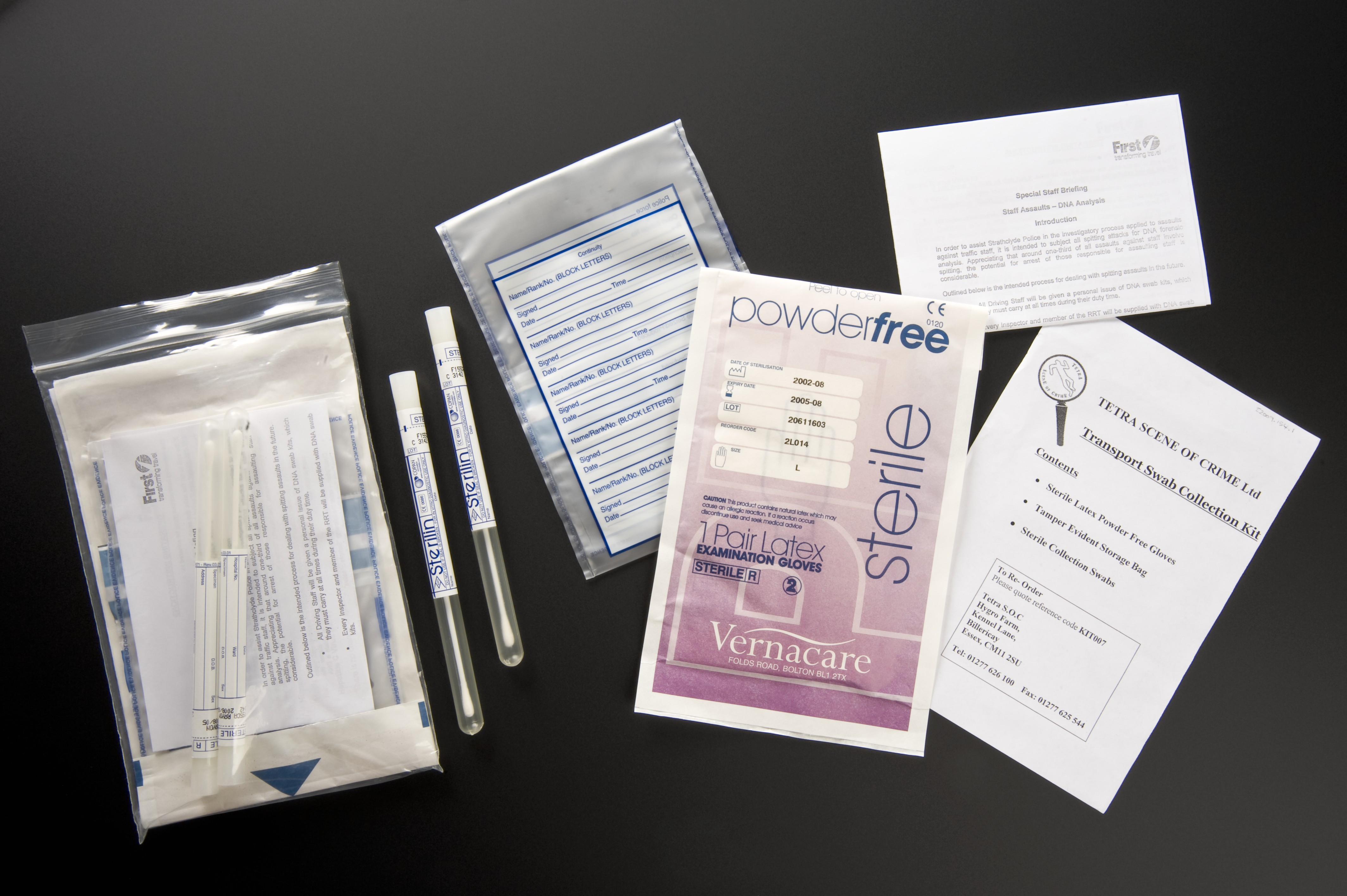 Tetra Scene of Crime Limited produced these DNA collection kits. They were issued by transport company First Glasgow to their bus drivers. It was an attempt to tackle staff assaults. In 2004, vandalism accounted for 8,000 broken windows among First Glasgow’s 1000-strong fleet. This averages 23 broken windows per night. Physical assaults and threatening behaviour saw First Glasgow team up with Strathclyde police to curb growing crime through DNA analysis. The kits contain Latex gloves, a tamper evident storage bag and two sterile collection swabs. The saliva swabs could only be used if the sample was taken from the skin of the victim. If the saliva landed on clothing, the article was given to Strathclyde police for analysis. Maker: Tetra Scene of Crime Limited Place made: Essex, England, United Kingdom Medical Photographic Library Keywords: dna collection kit